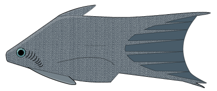 An illustration of a furcacaudid thelodont, Furcacauda heintzae.